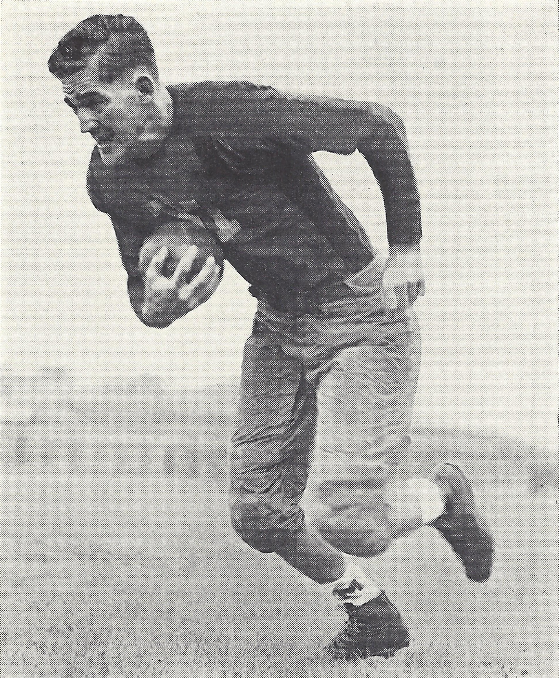 Photograph of Herman Everhardus, player on the 1933 Michigan Wolverines football team